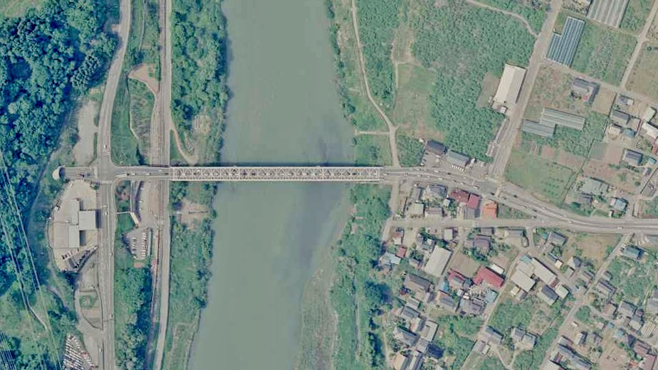 Tategahana Bridge (Nagano - Nakano).